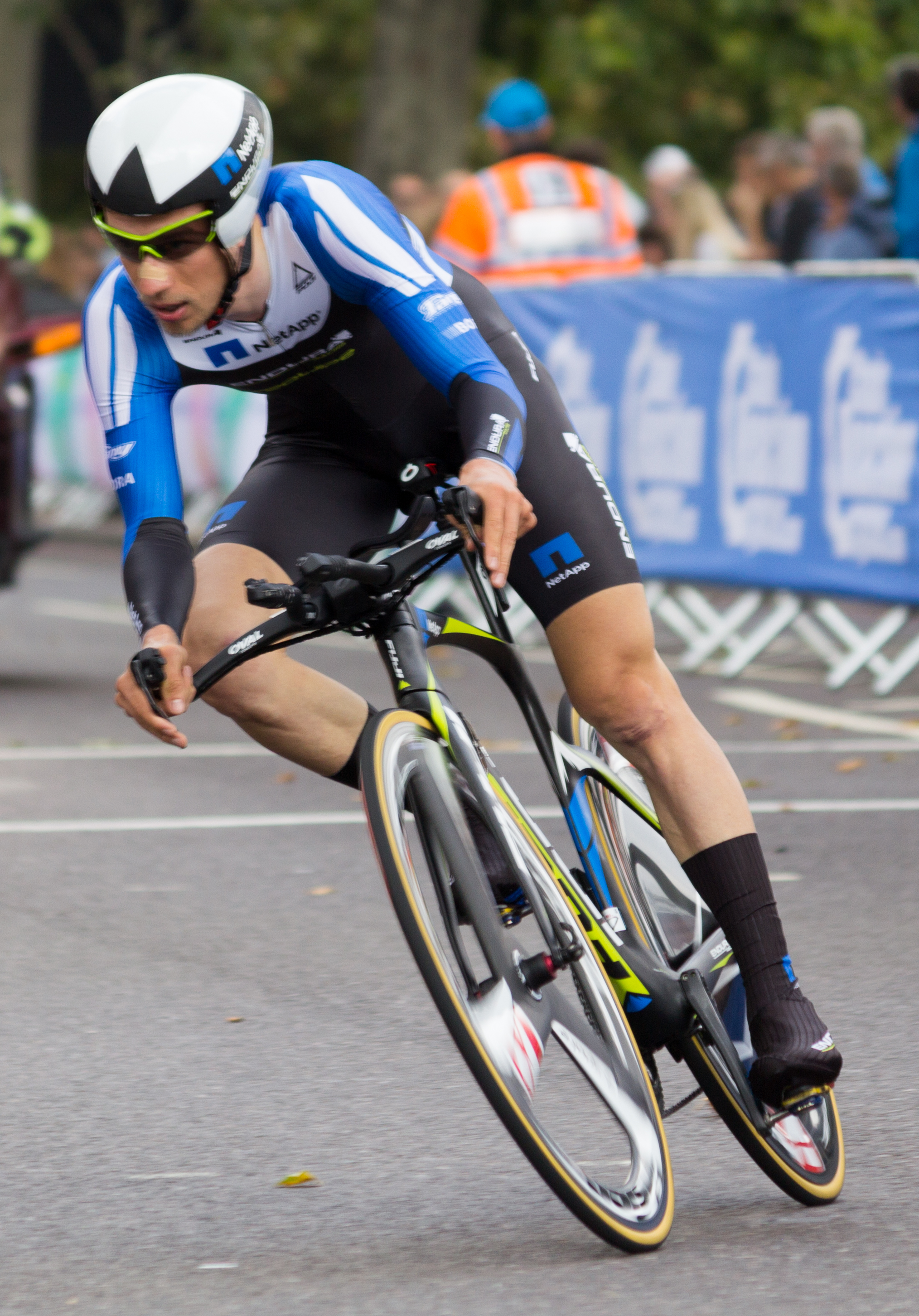 Tour of Britain 2014 stage 8a - London time trial